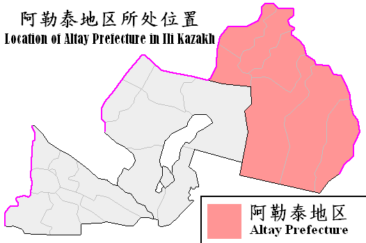 Location of Altay Prefecture, Xinjiang, China